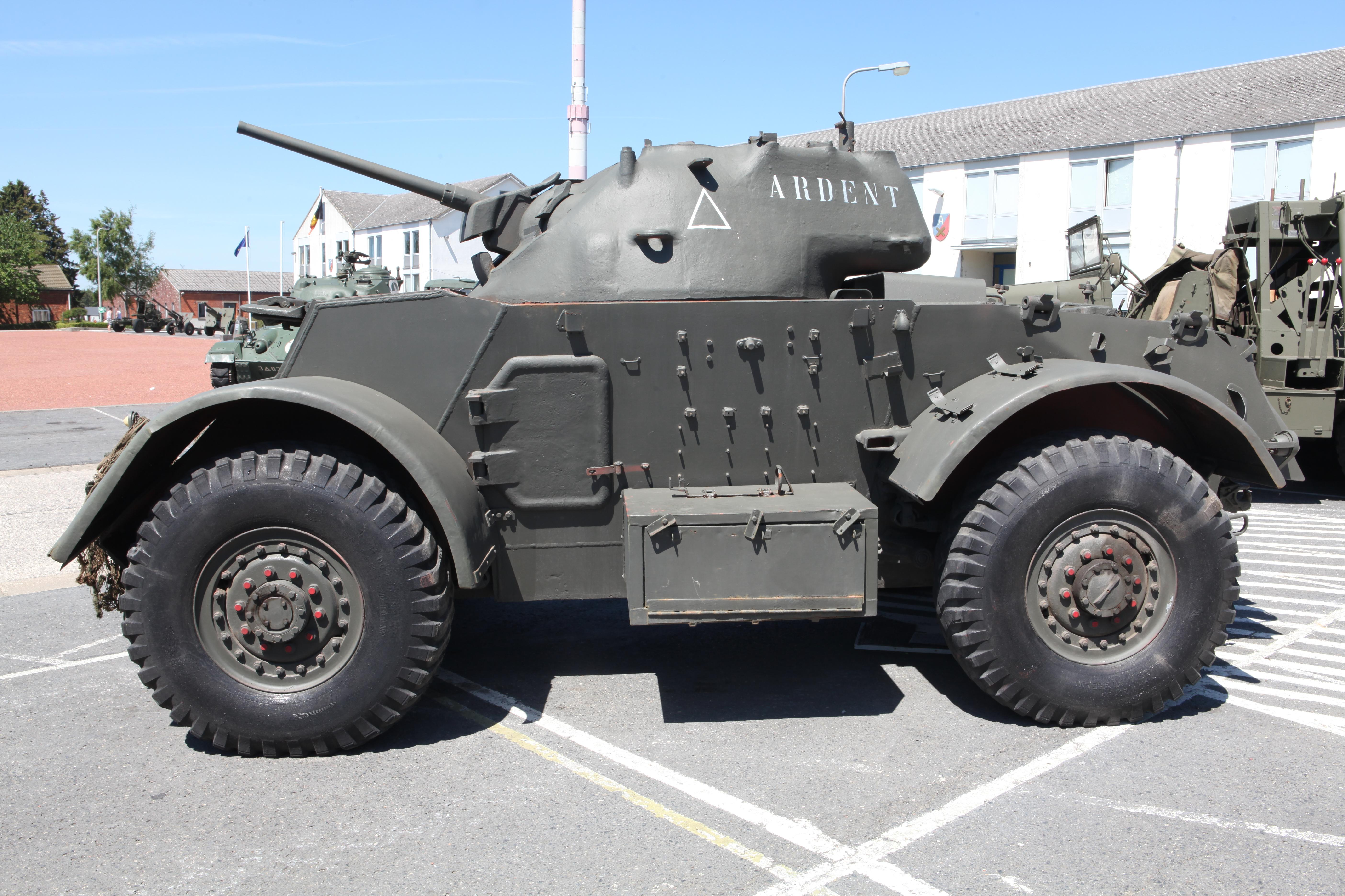 T 17 Staghound Armored Car